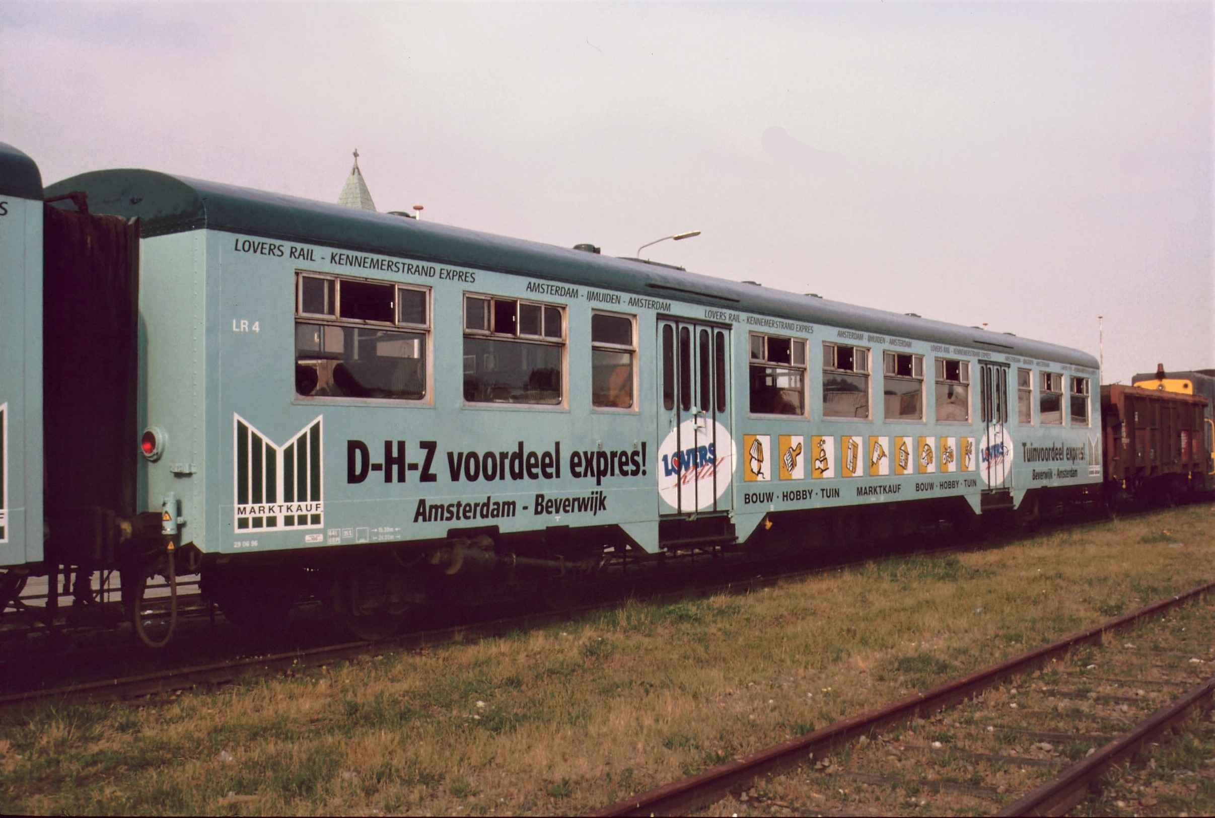 Lovers Rail - Kennemer express at IJmuiden station